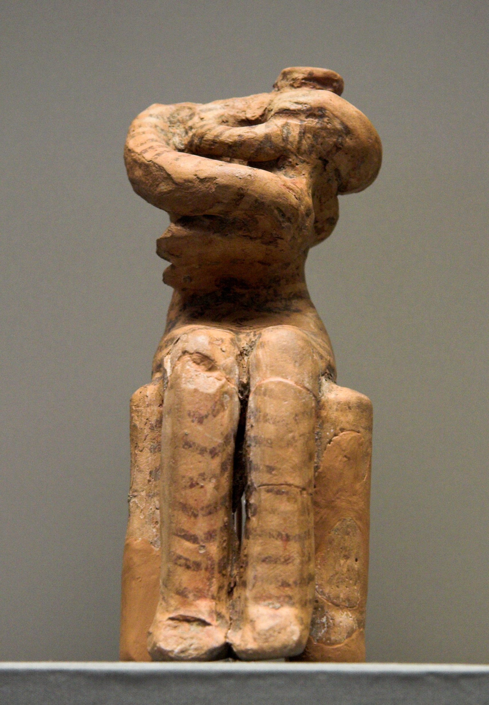 Female figurine of a woman holding a baby, torso. "Kúrotrofos", but from the Neolithic Period, 4800 - 4500 BC, small painted terracotta. From Sesklo. National Archaeological Museum of Athens 5937.